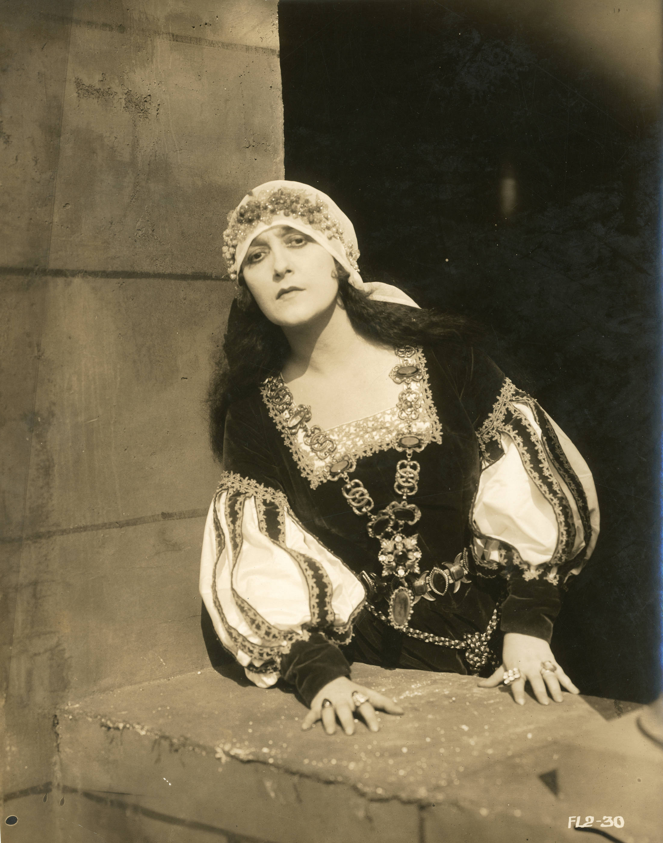 Singer and silent films actress Lina Cavalieri, from the film Love's Conquest (1918). Subjects: actresses